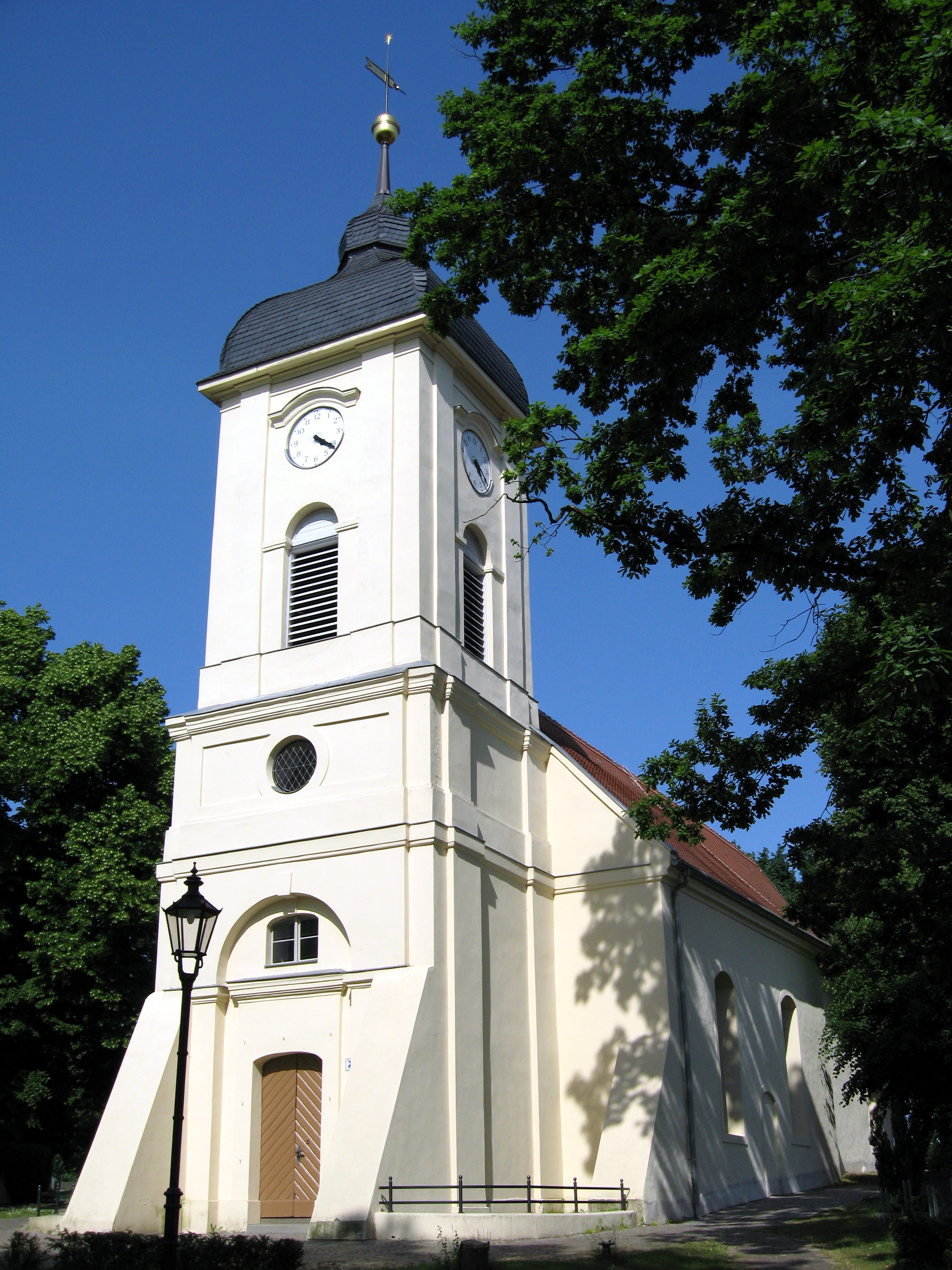 Klosterfelde church, Wandlitz municipality, Barnim district, Brandenburg state, Germany